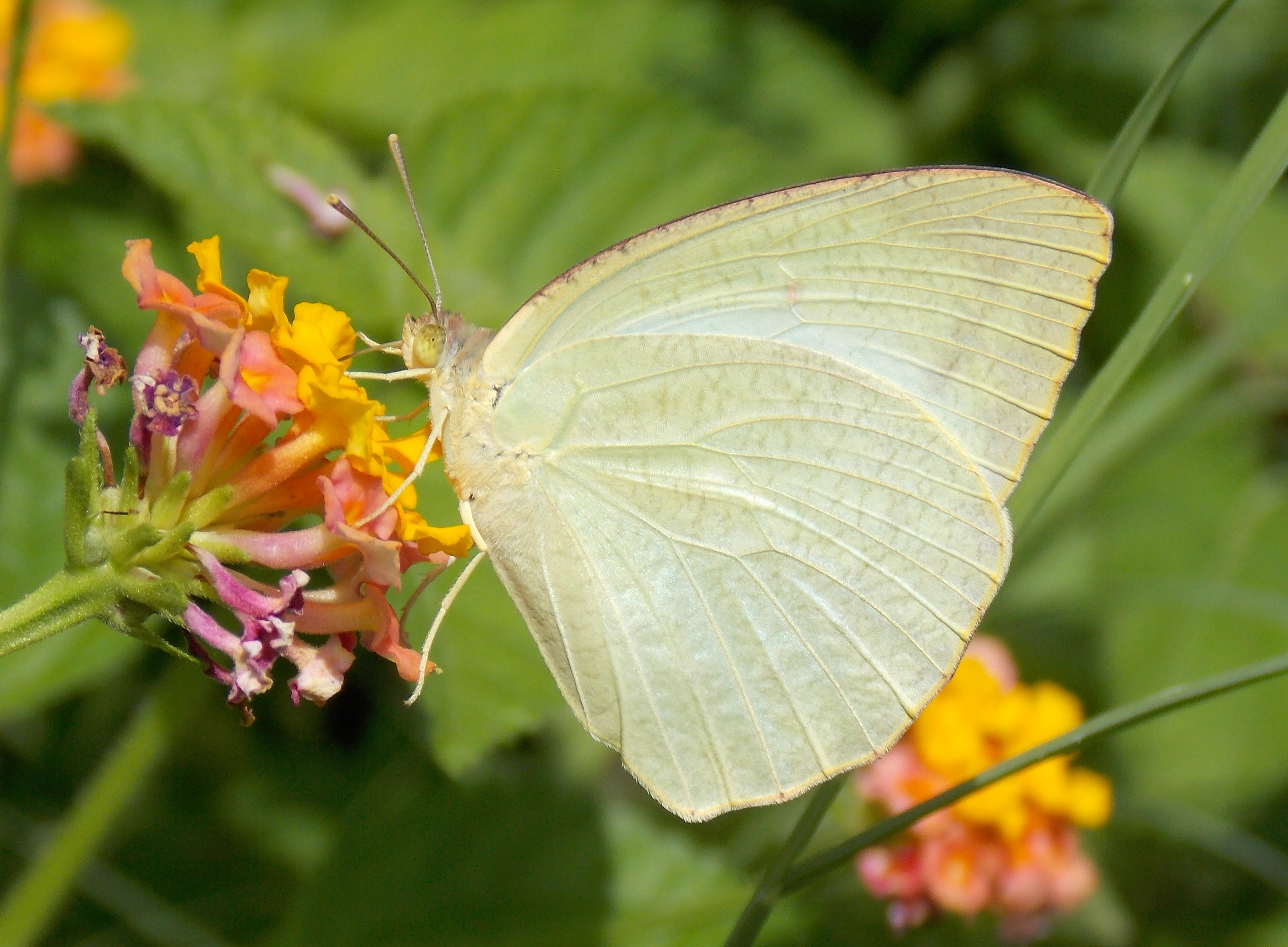 Catopsilia pyranthe (Mottled Emigrant): Taxila, Rawalpindi, Punajb, Pakistan. September 2014